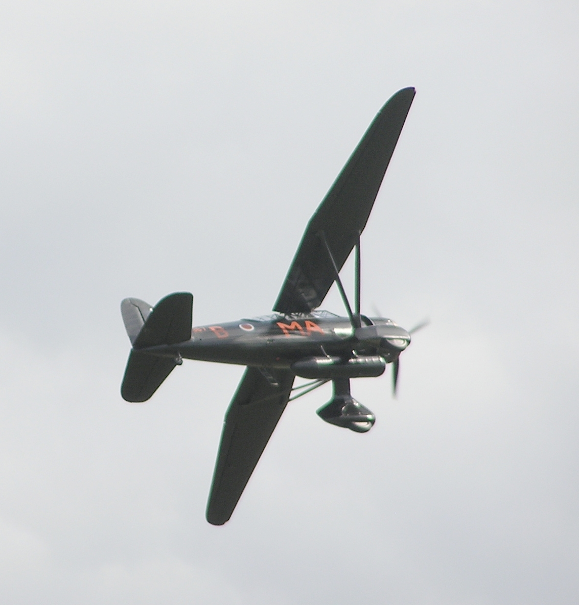 The Shuttleworth Collection Lysander III G-AZWT, painted as V9367 but originally RCAF 2355. Photograph from the Flying Legends Show, Duxford 8 July 2007